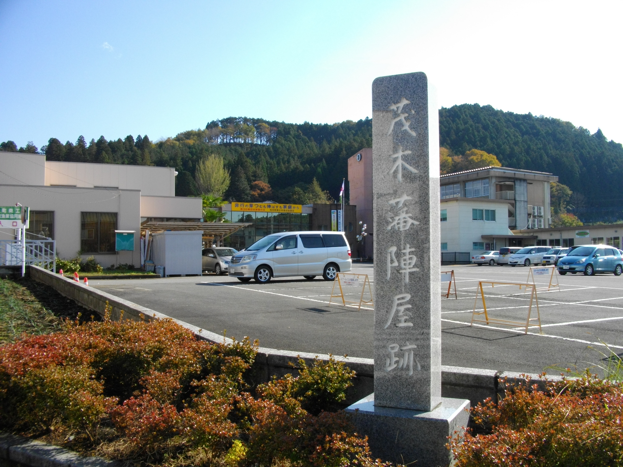 Ruins of Motegi Han Jin'ya